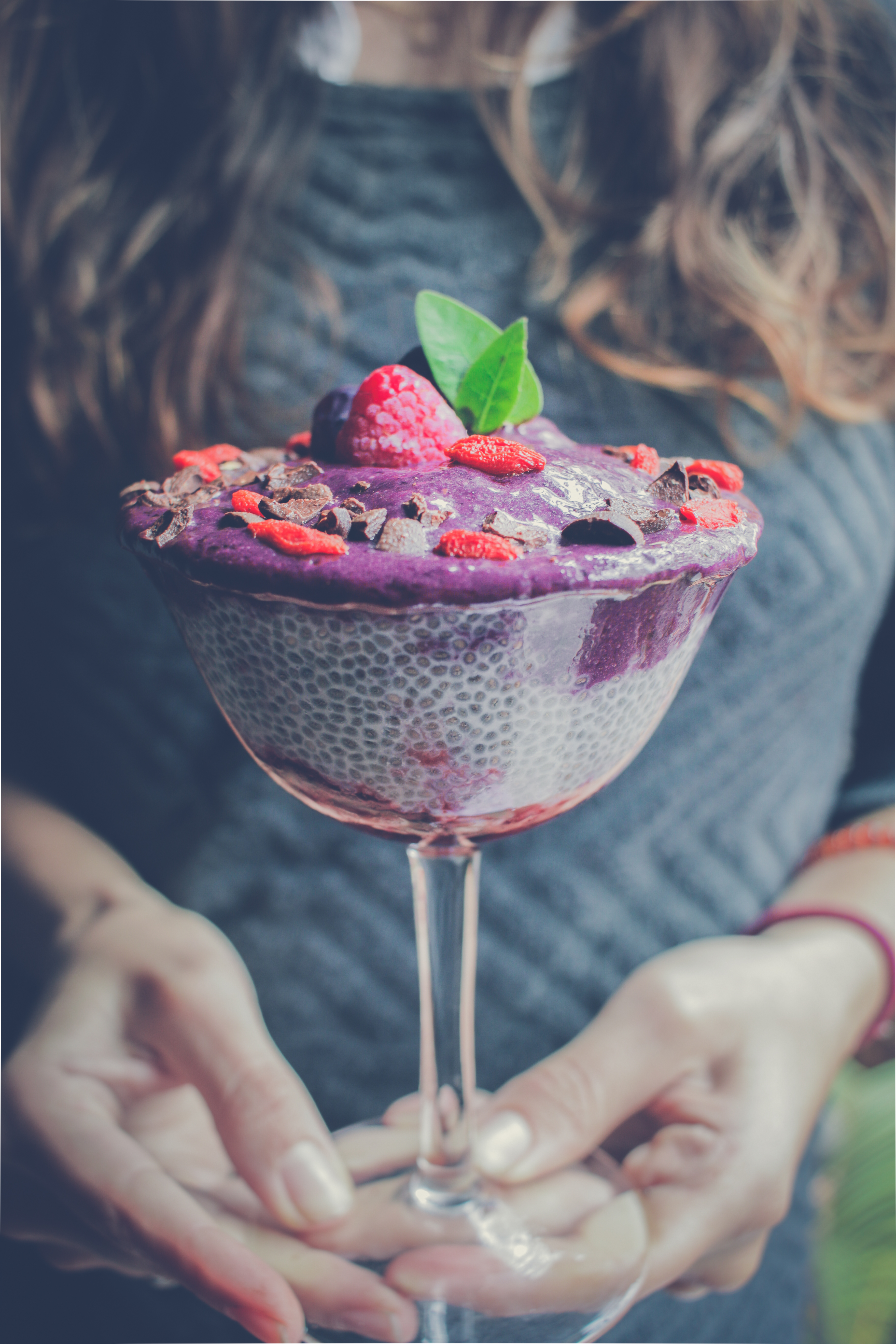 Lima Region, Peru